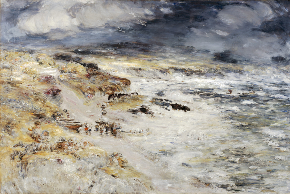 Photograph of The Storm,, 1890. Oil on canvas, by William McTaggart. In the public domain. Source [1]. The landscape which was worked up in McTaggart's studio was based on a smaller version painted out of doors at Carradale in Kintyre in 1883. Andrew Carnegie, the industrialist and philanthropist, bought the painting which was later presented to the National Galleries of Scotland by his widow Mrs Andrew Carnegie in 1935. Size: 122.00 x 183.00 cm (framed: 168.50 x 230.00 x 17.50 cm)